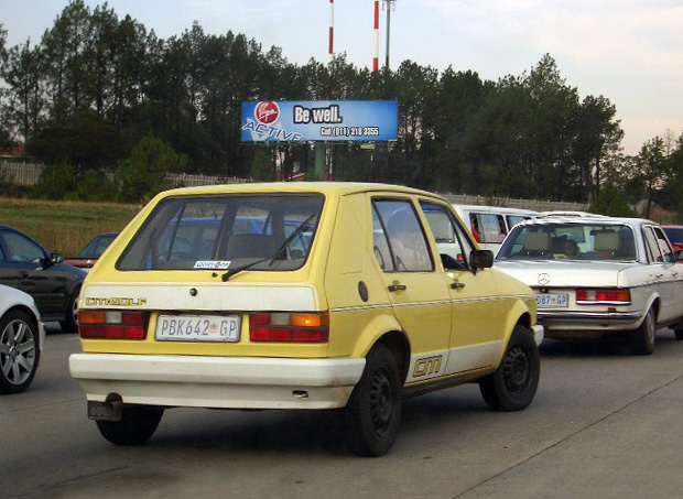 Description: VW Citi Golf on N1-Highway Johannesburg - Pretoria in South Africa